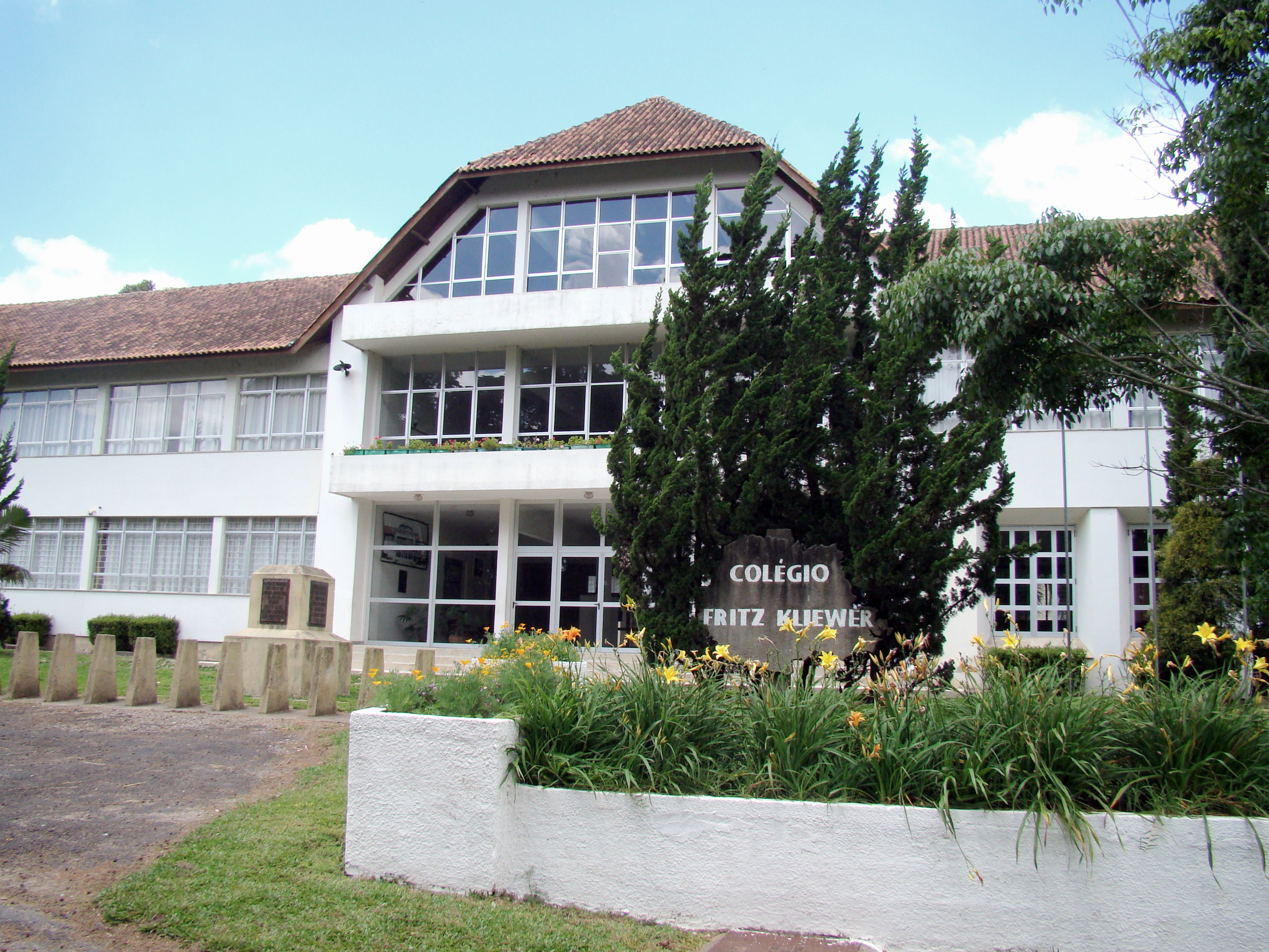 Colégio Estadual Fritz Kliewer, in the Colônia Witmarsum, Paraná, southern Brazil.